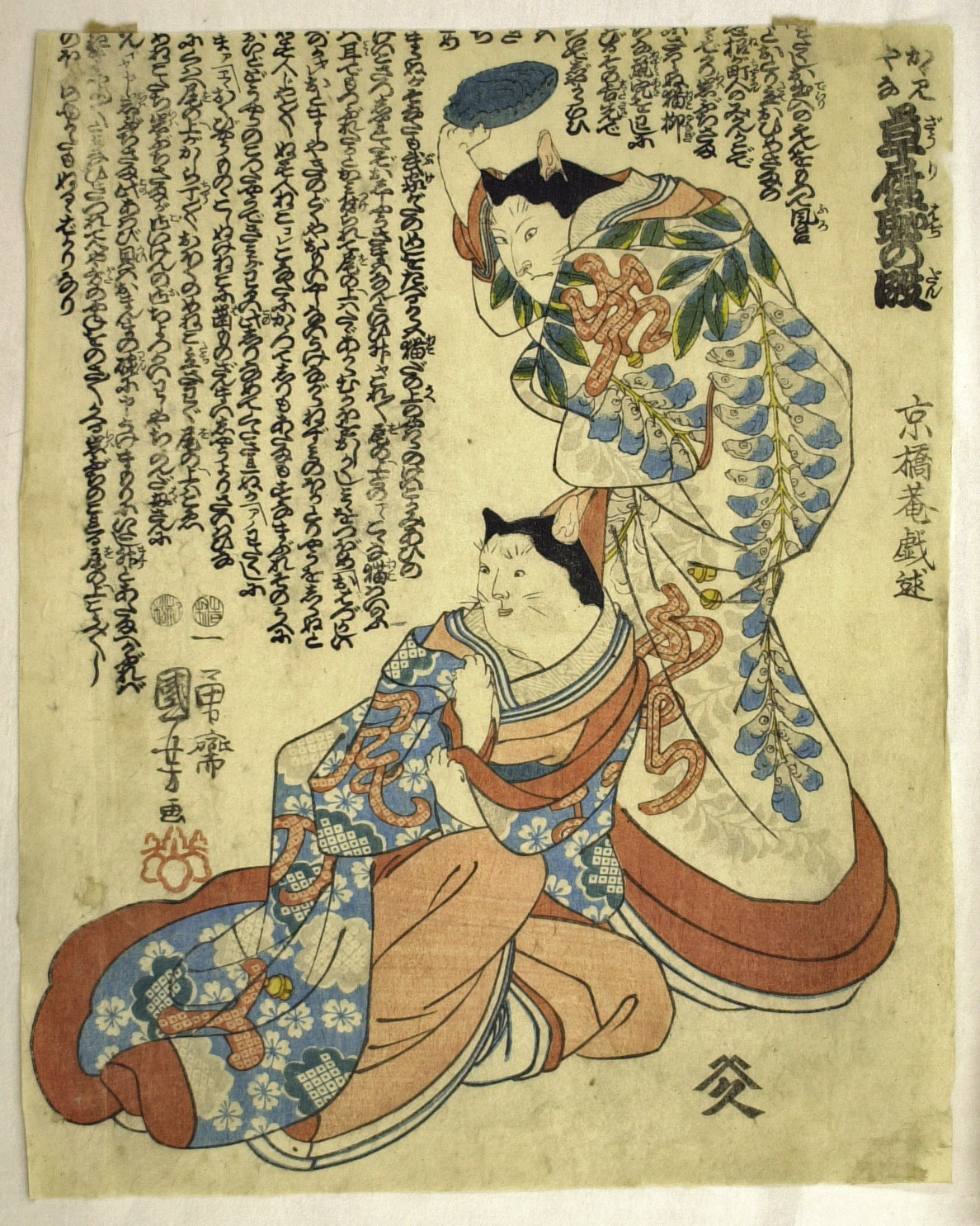 Colour woodblock print (trimmed).